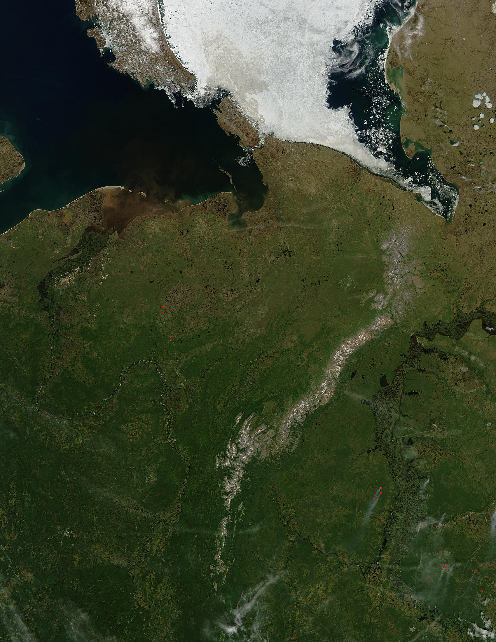 Pechora River sattelite photo On July 3, 2004, sea ice still covered much of the Kara Sea in Northeastern Russia, near the western edge of Siberia, when the Moderate Resolution Imaging Spectroradiometer (MODIS) on NASA’s Aqua satellite captured this image. The southern tip of Novaya Zemlya Island curves out of the upper left corner of the image and is separated from Vaygach Island by Karskiye Vorota Strait. The narrow Yugorskiy Shar Strait, which separates Vaygach Island from mainland Russia, is clogged with sea ice. To the west, image left, the Pechora River is emptying brown, sediment-rich water into the Pechorskoye Sea. The water is probably loaded with mud as the far north thaws for the summer. In the lower right corner of the image, MODIS has detected a handful of fires, marked in red, which are sending light plumes of smoke to the southwest.